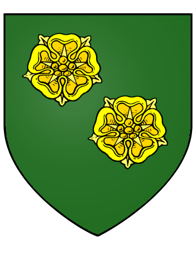 Game of Thrones' Garlan Tyrell's coat of arms.